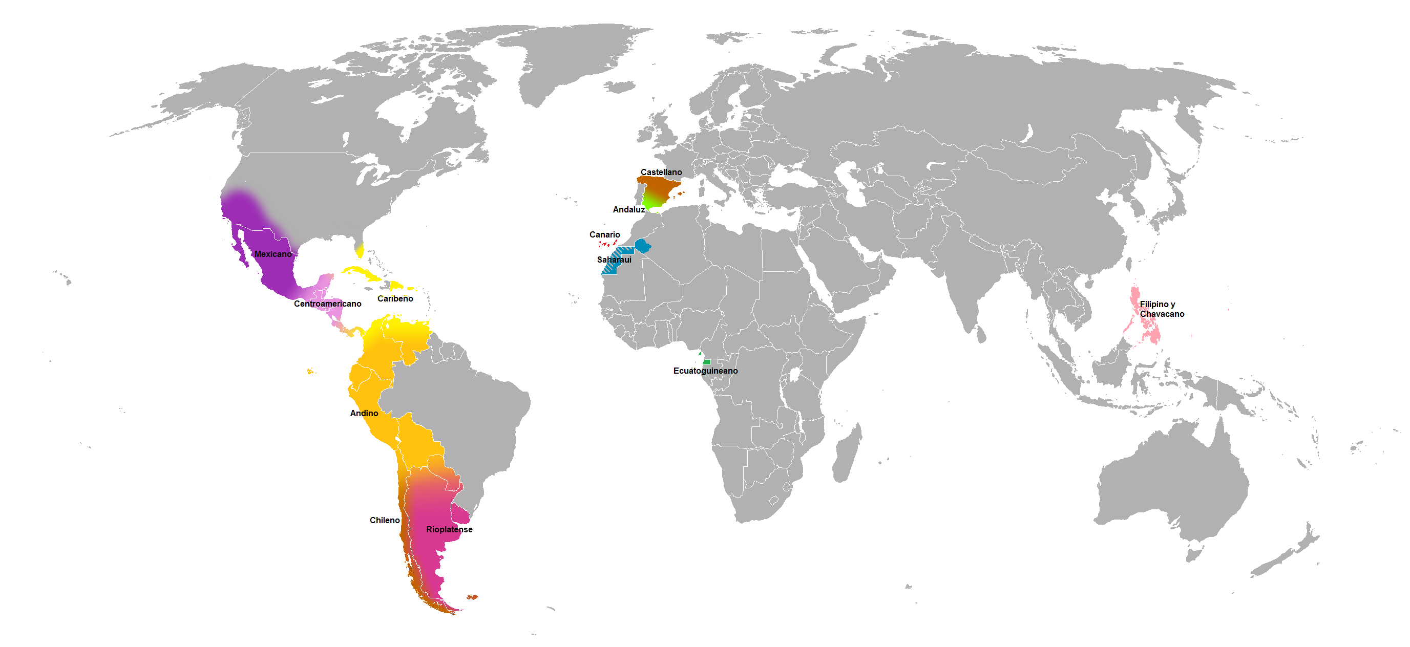 Main varieties of the Spanish language throughout the world.